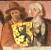 Casimir V and his first wife, Catherine of Brunswick-Luneburg